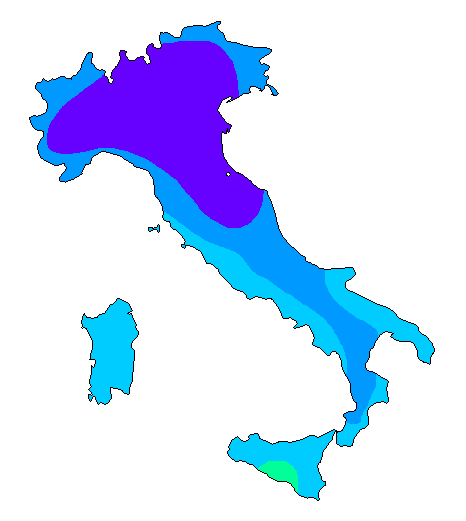 Map of daily sunshine hours in Italy in October